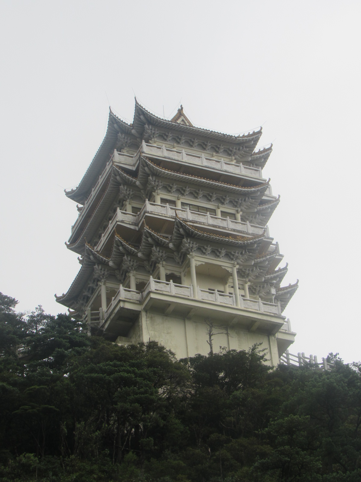 Rufeng Ge is located on Rufeng,which is the peak of Xiao Huang Shan(Shaoguan).